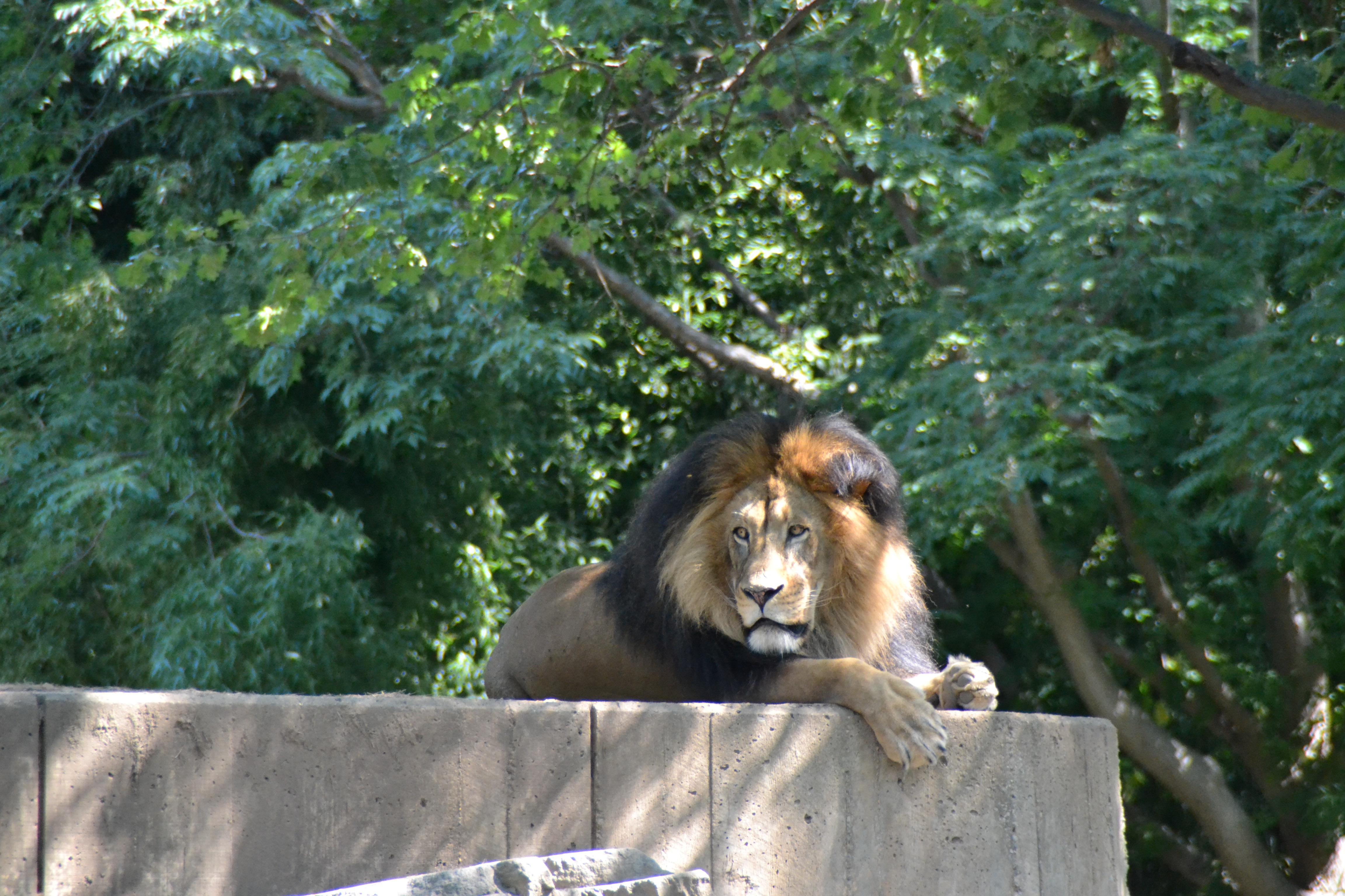 Male lion at the Smithsonian National Zoological Park